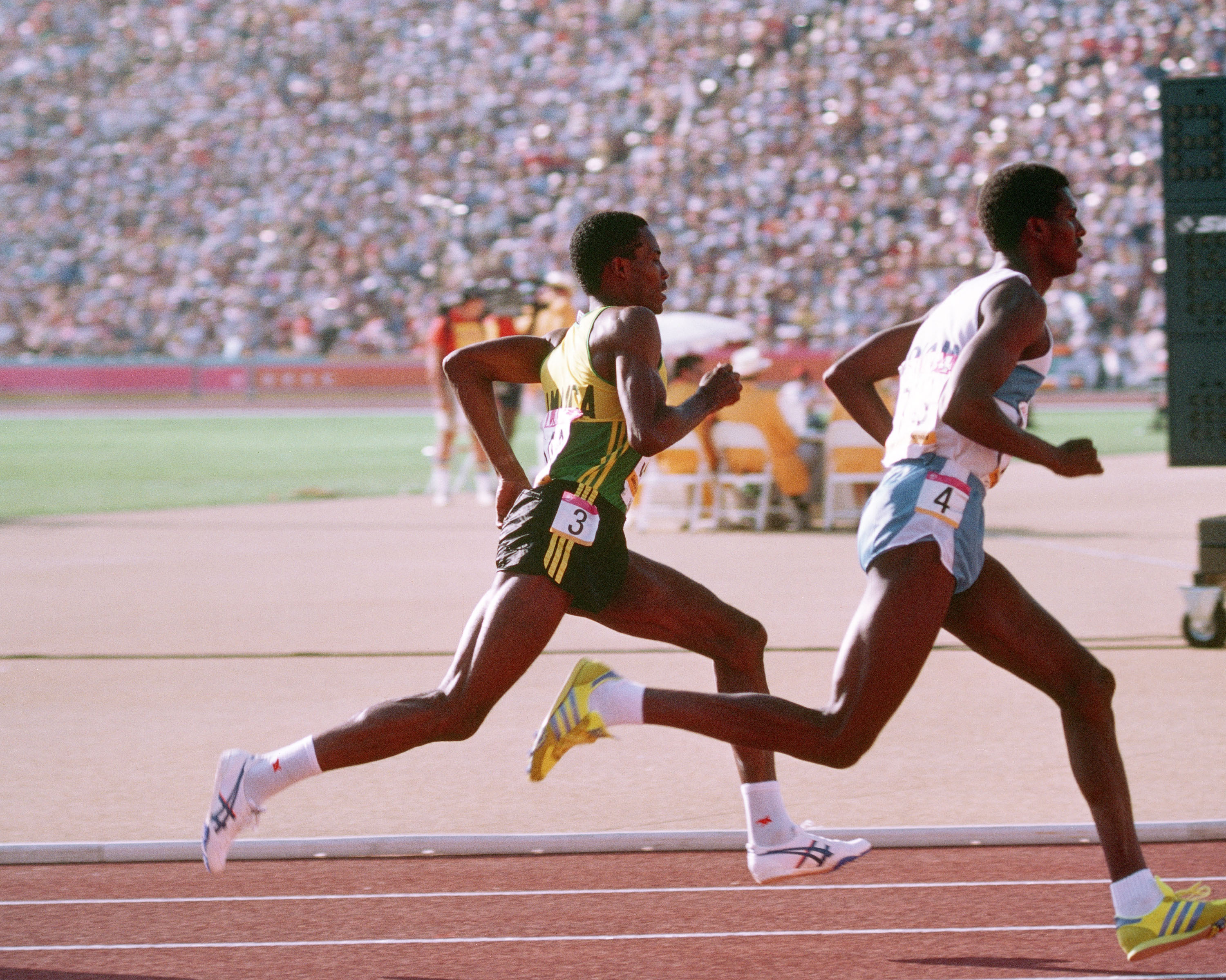 Owen Hamilton representing Jamaica in the 800 meter track and field team event at the 1984 Summer Olympics trailing behind Abdi Bile.